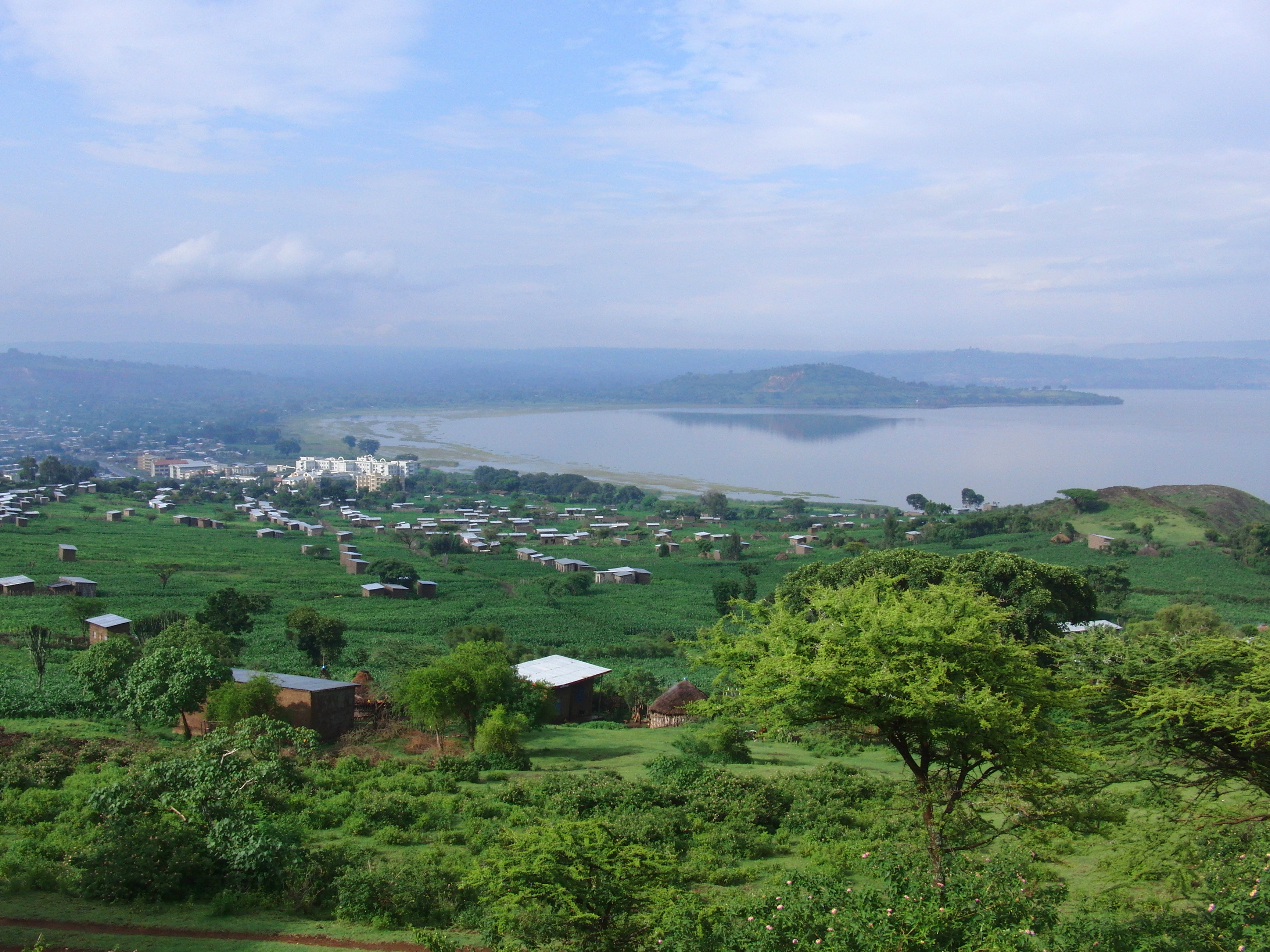 View over the outskirts of Awasa, South Ethiopia.